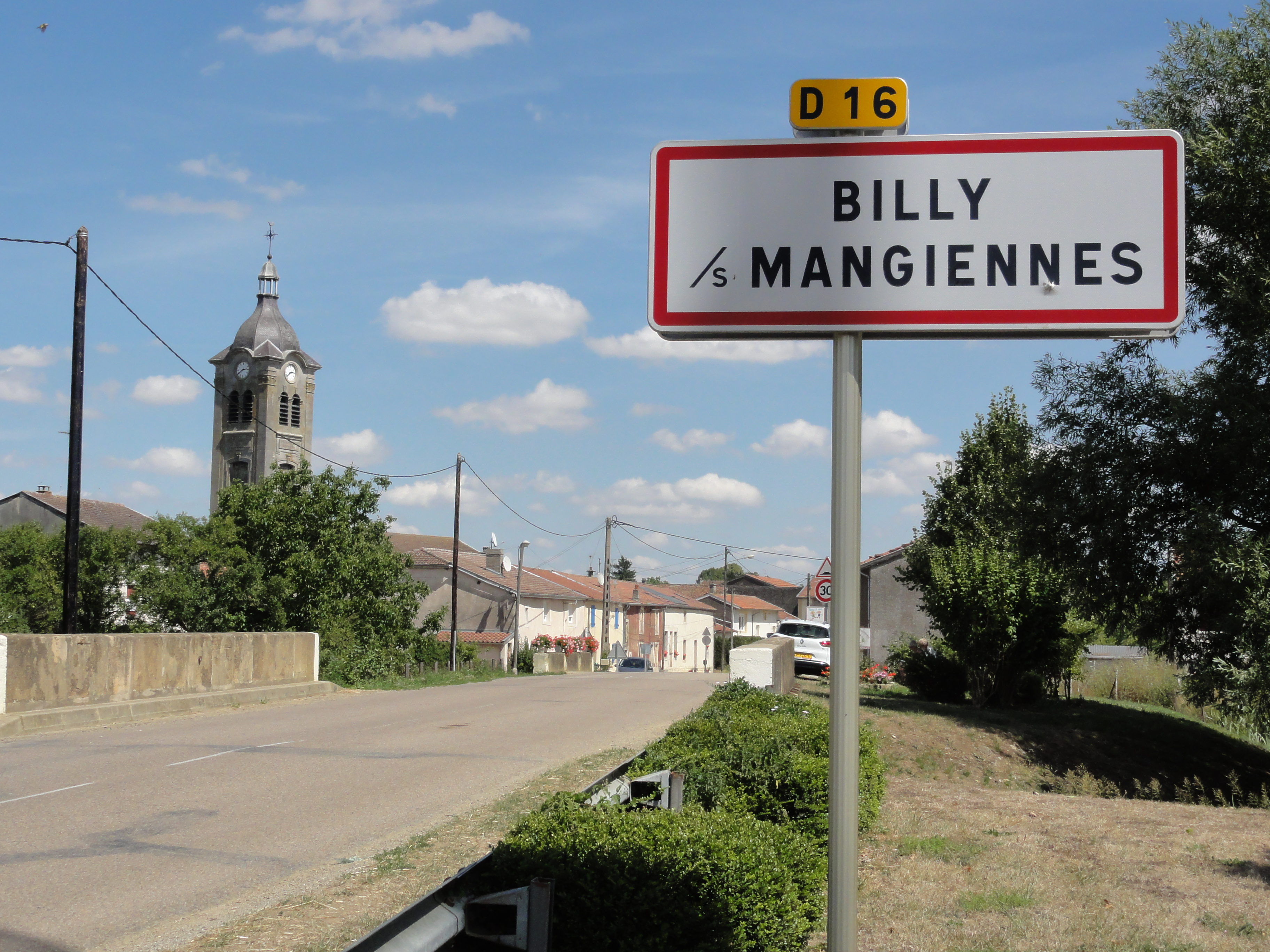 Billy-sous-Mangiennes (Meuse) city limit sign